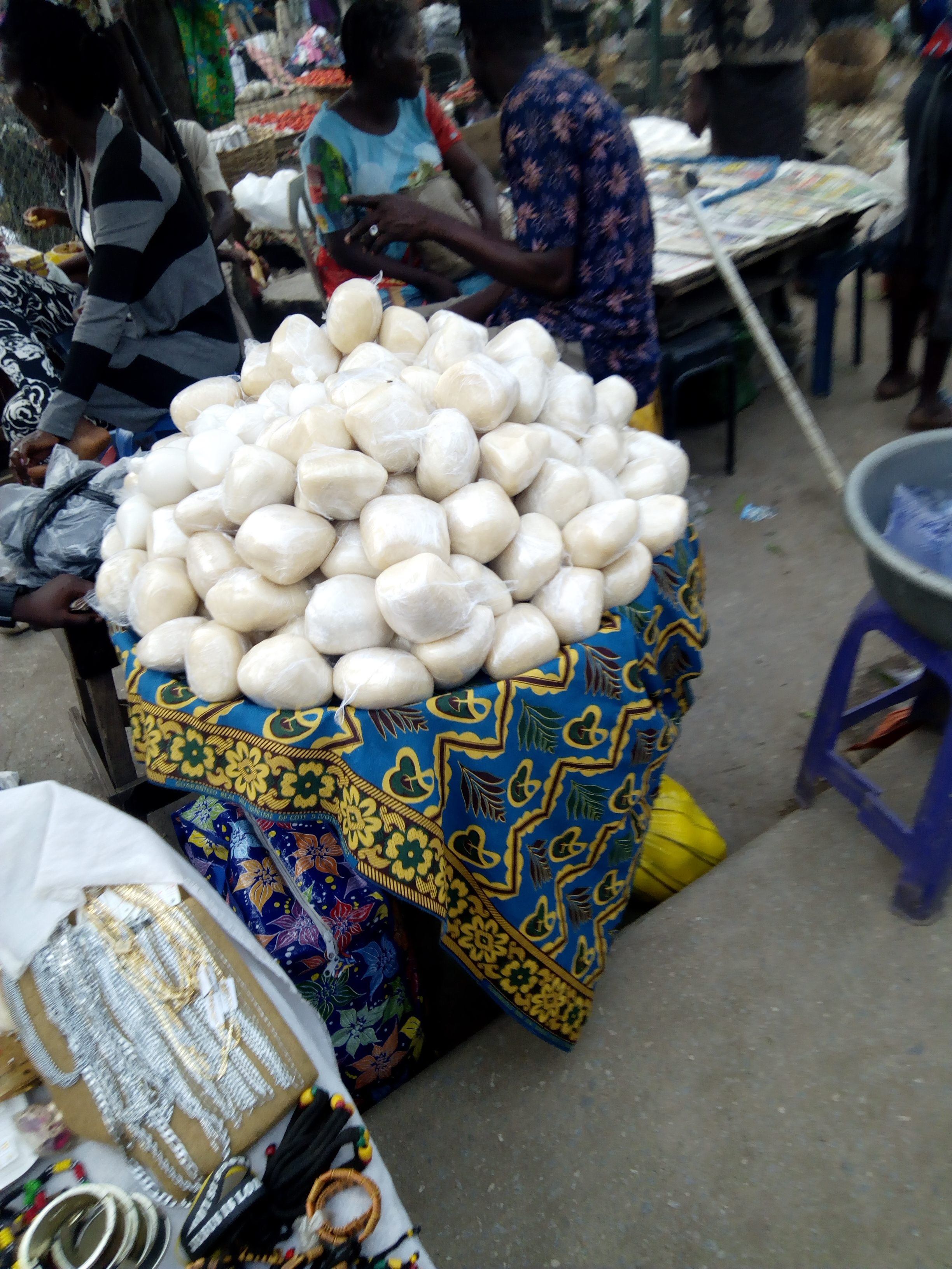 This is a nigerian food fufu been sold on the street of Lagos This is an image of "African people at work" from Nigeria